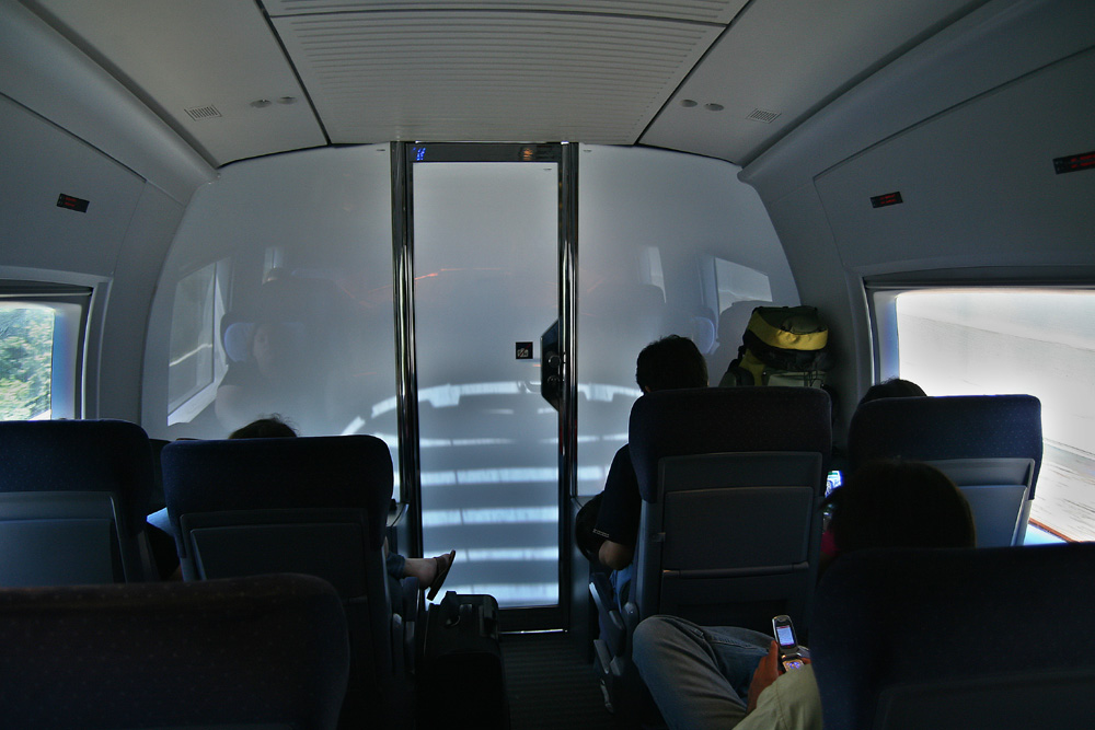 Glas panel between the driver's cab and the Lounge compartment of an ICE 3 high-speed train in an intransparent state.